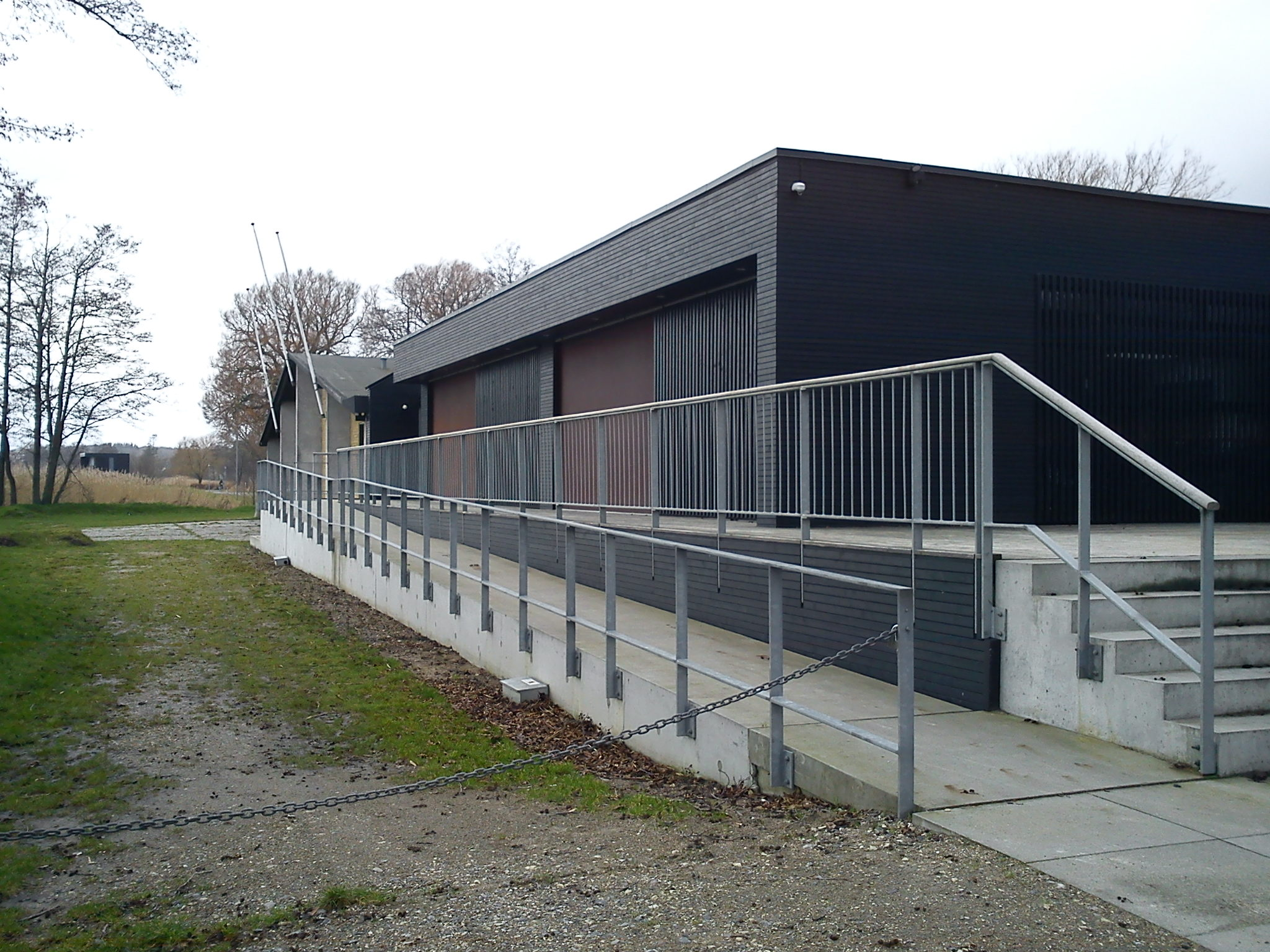 The main building of Brabrand Rowing Stadium. The tower can be glimpsed in the distance.